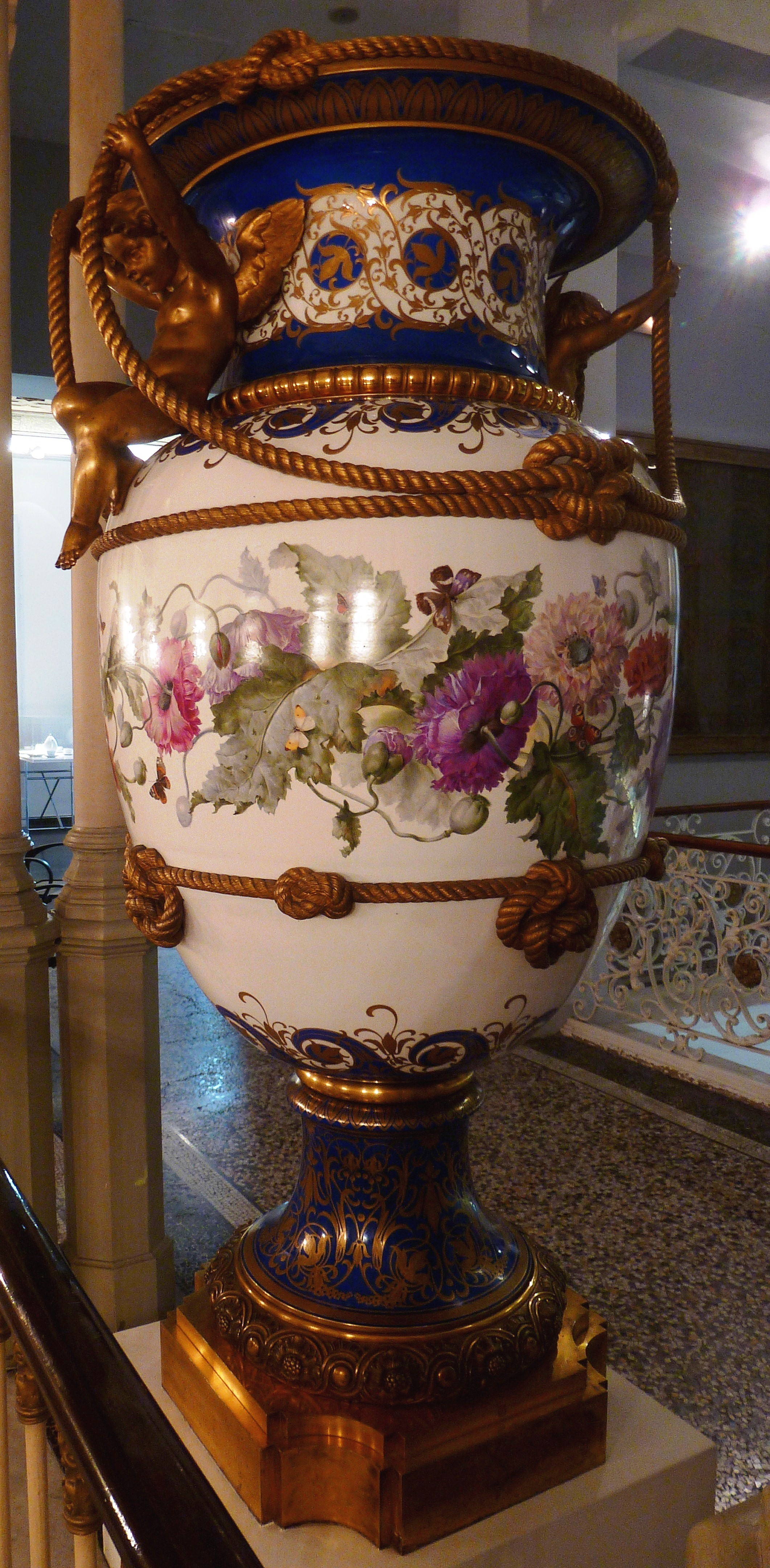 Sèvres porcelain vase